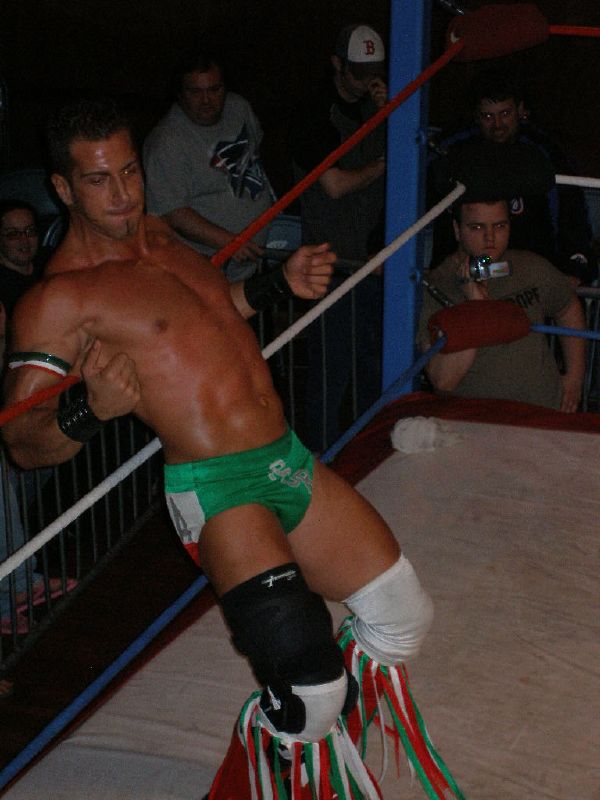 Professional wrestler Romeo Roselli (real name Giovanni Roselli) at the TRP Kowalski Cup show on May 4, 2007